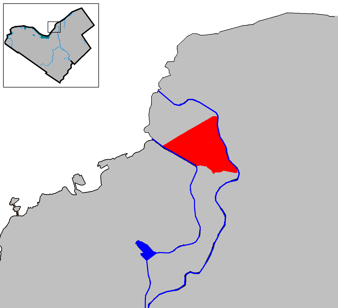 Map of Sandy Hill